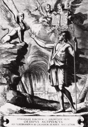 Frontispiece to Athanasius Kircher's Oedipus Aegyptiacus, published in 1652-1654.